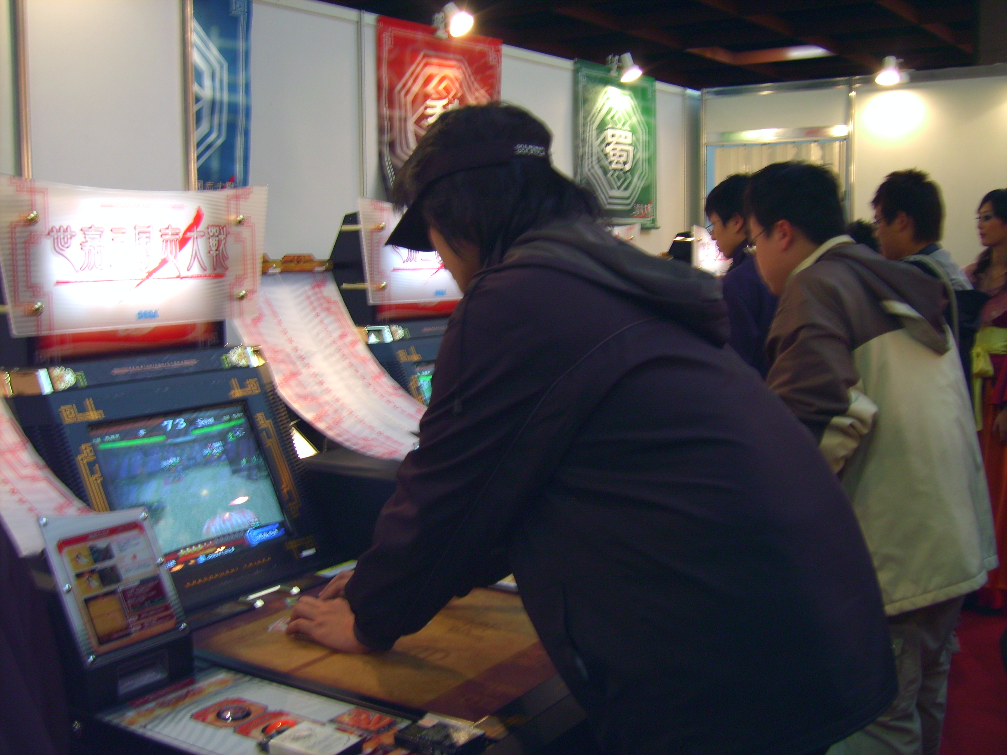 2007 Taipei Game Show: Sega Taiwan exhibited arcade game Sangokushi Taisen 2.